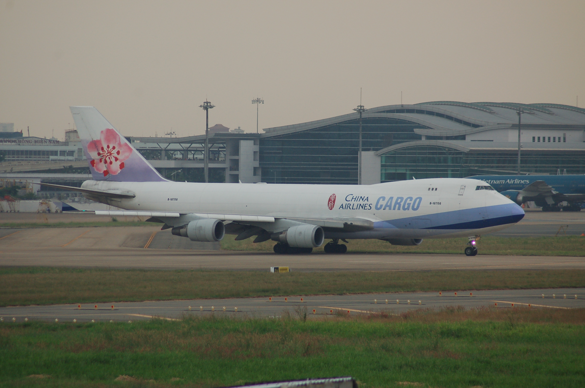 Boeing 747/4F of China Airlines Cargo at Ho Chi Minh City (Tan Son Nhat International) - SGN, Vietnam,19/11/09.